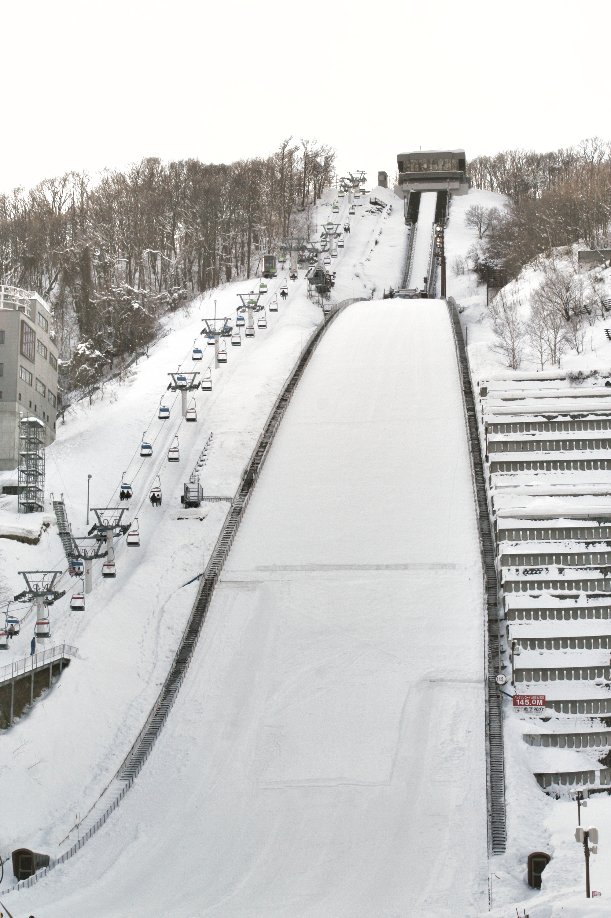 View of Okurayama Ski Jumping Tower in Sapporo, Japan, Site of Olympic Winter Games in 1972 and Nordic World Ski Championships 2007